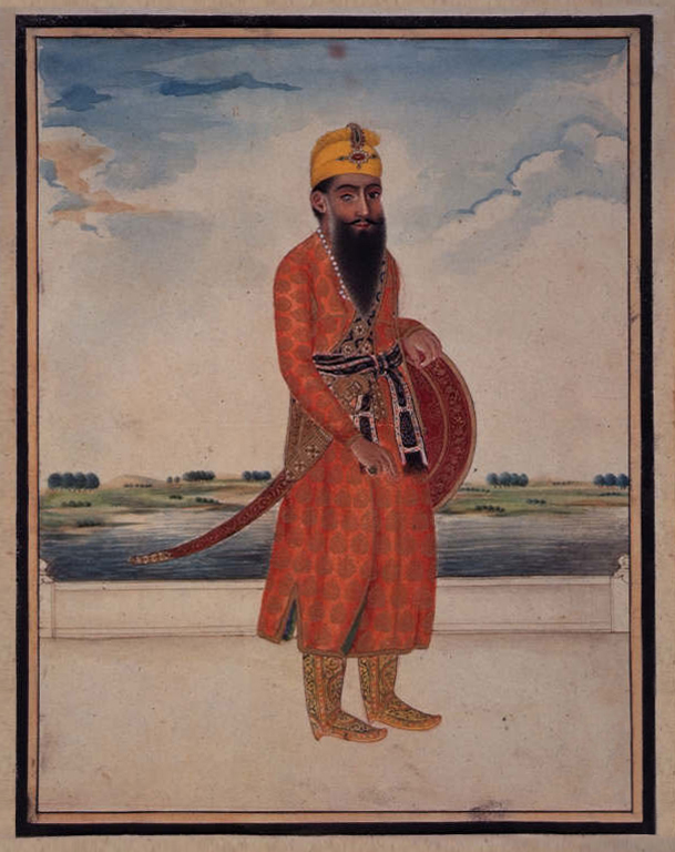 A watercolor portrait of Ranjit Singh, c.1816-29